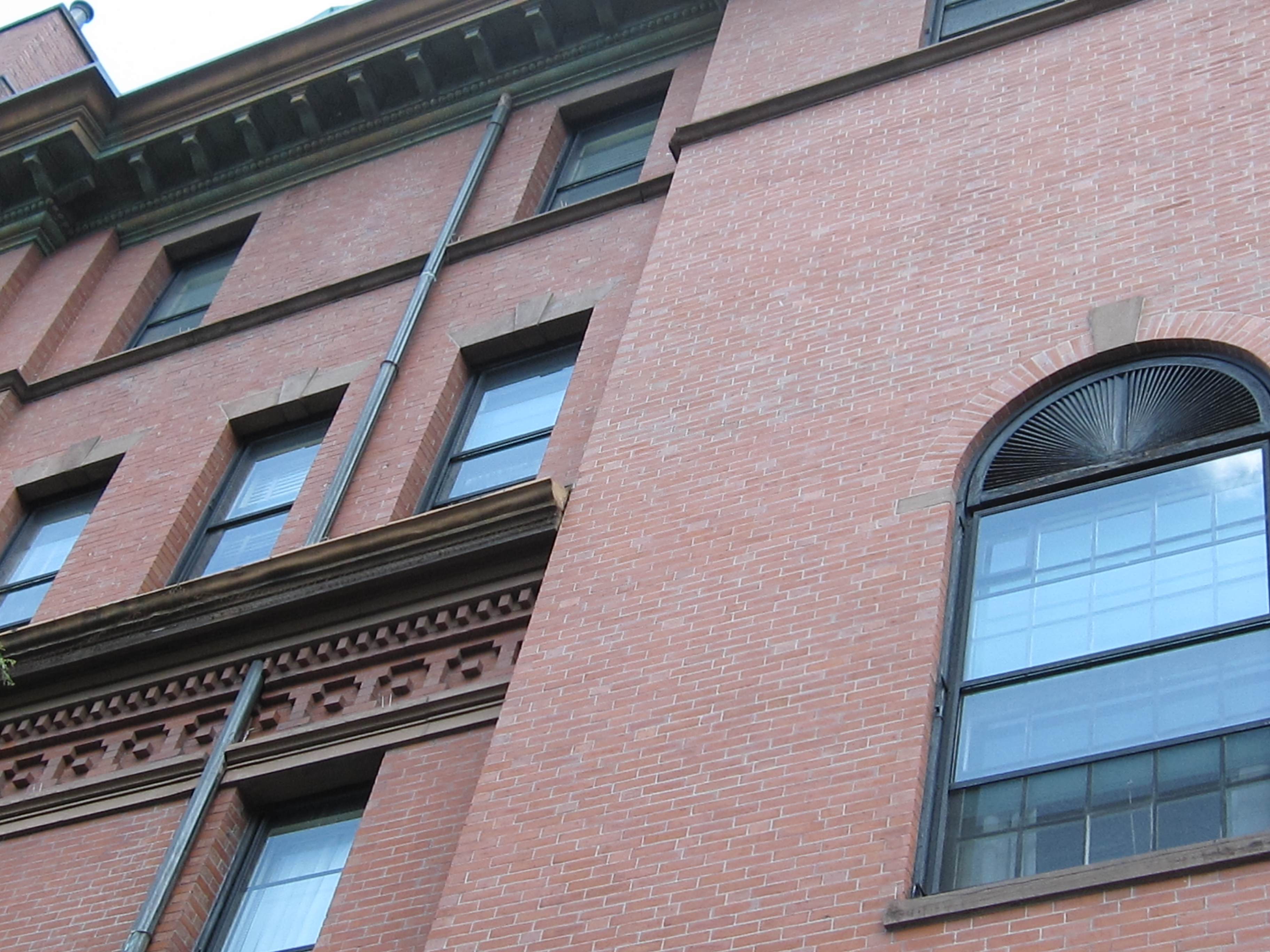 287 Dartmouth St., Boston MA. Designed by Henry Richards, 1870.